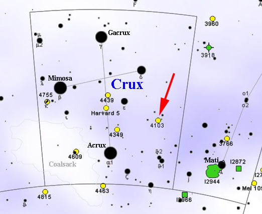 Map of NGC 4103